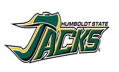 Humboldt state logo